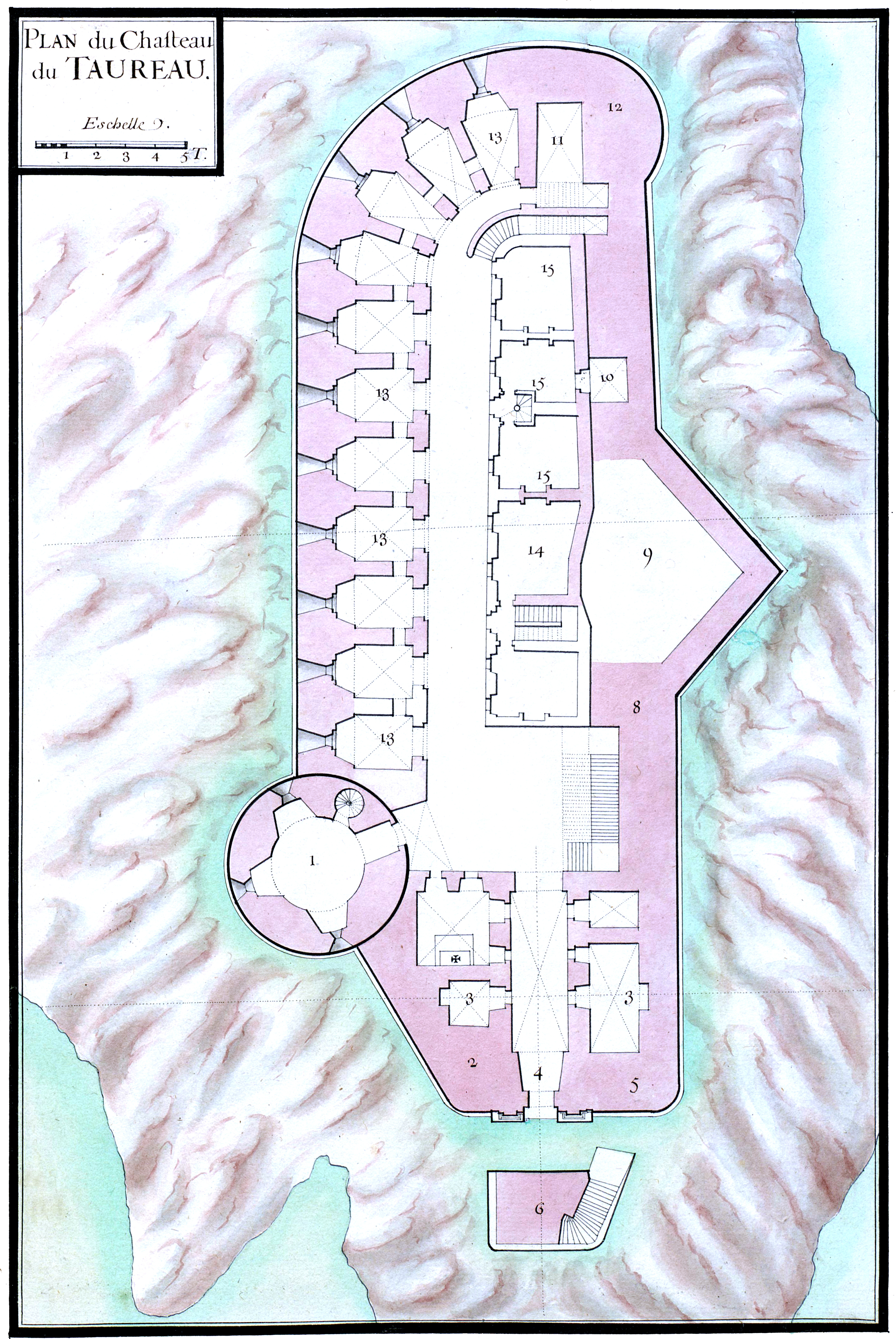 Map of "château du Taureau", extract from "Recueil des plans des places du Royaume, divisées en provinces, faits en l'an 1693", made for king Louis XIV The original map came from the internet site of Bibliothèque Nationale de France and is in Public Domain.